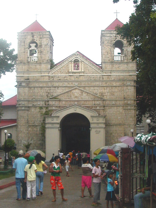 A photo of the San Fernando Rey Parish, in Lilo-an (Liloan), Cebu, Philippines. The photograph includes some visitors and merchants.